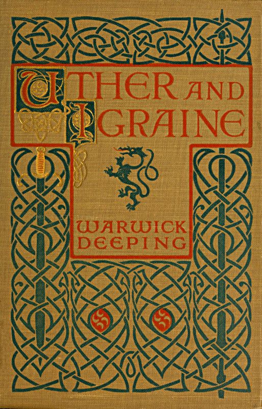 Cover to Uther and Igraine, Warwick Deeping, illustrated by "W. Benda"